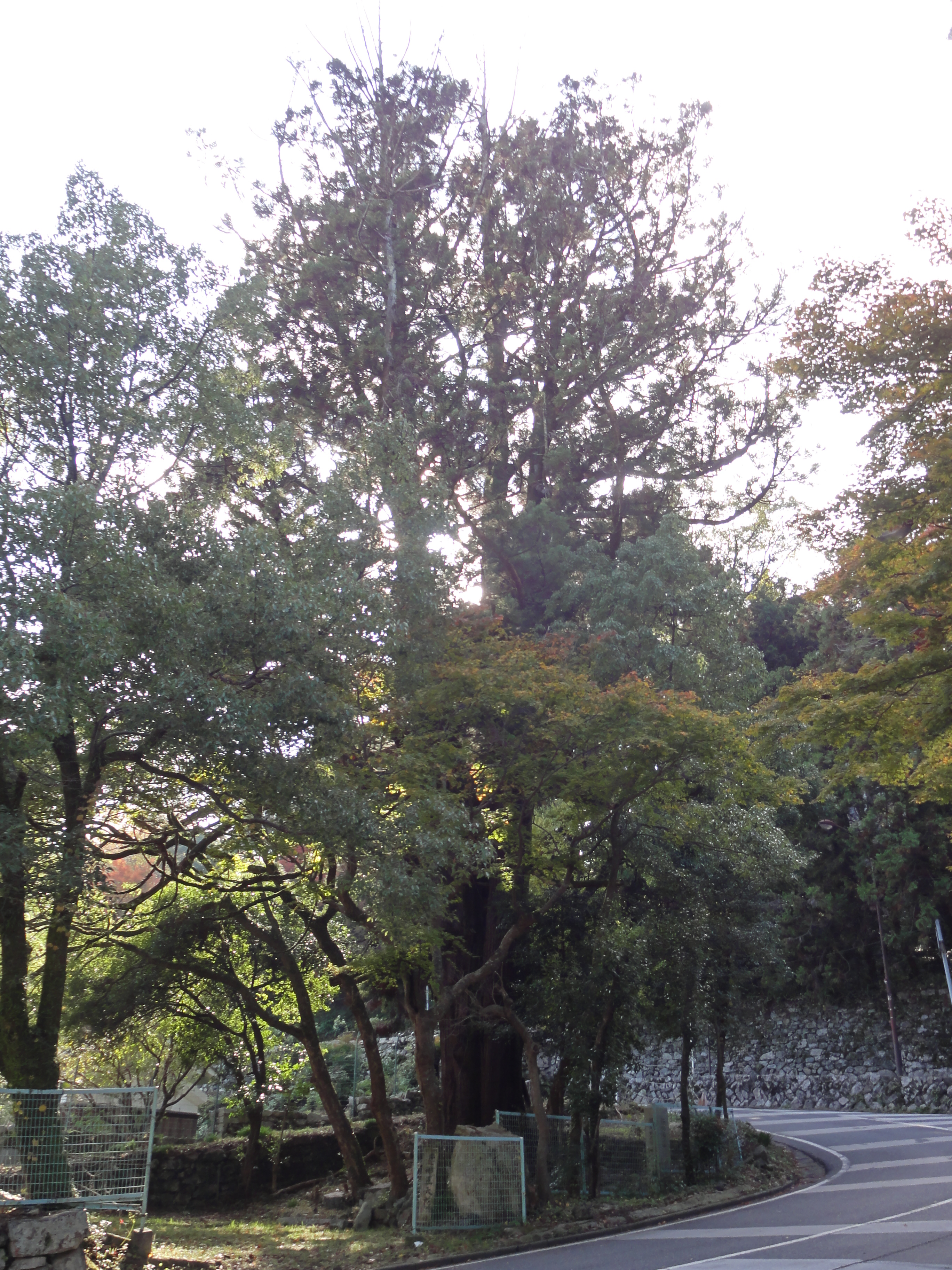 Syanaō sugi,Shiga prefecture, Japan